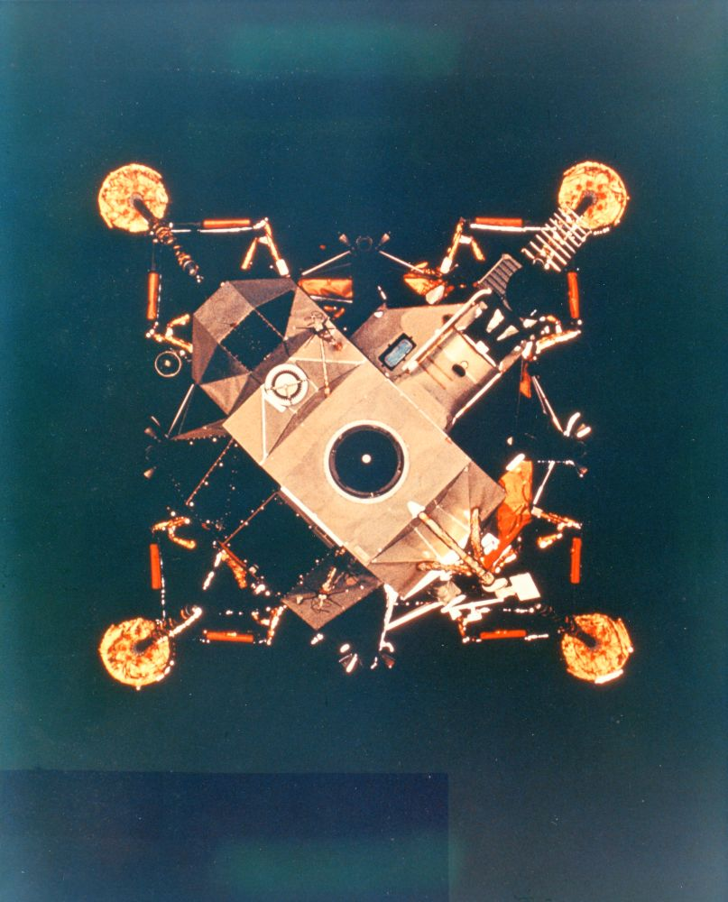 SDASM.CATALOG: 08_001917 FILE NAME: 08_01917 SDASM.TITLE: View of Antares from Kitty Hawk SDASM.ADDITIONAL INFO: By CMP Stuart Roosa SDASM.MEDIA: Glossy Photo SDASM.DIGITIZED: Yes SDASM.SOCIAL MEDIA: SDASM.TAGS: View of Antares from Kitty Hawk PUBLIC COMMONS.SOURCE INSTITUTION: San Diego Air and Space Museum Archive